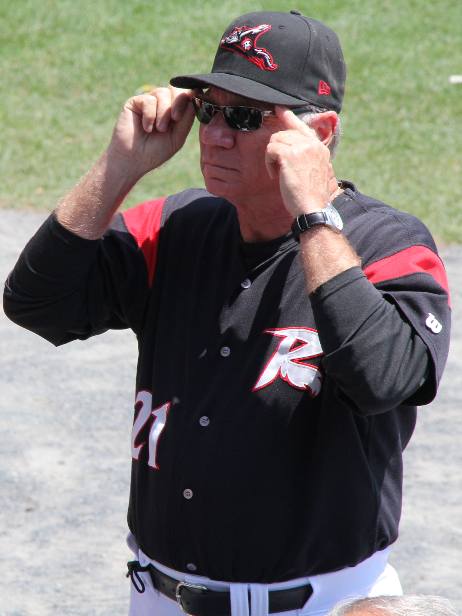 6/26/13 Team manager Dave Machemer.